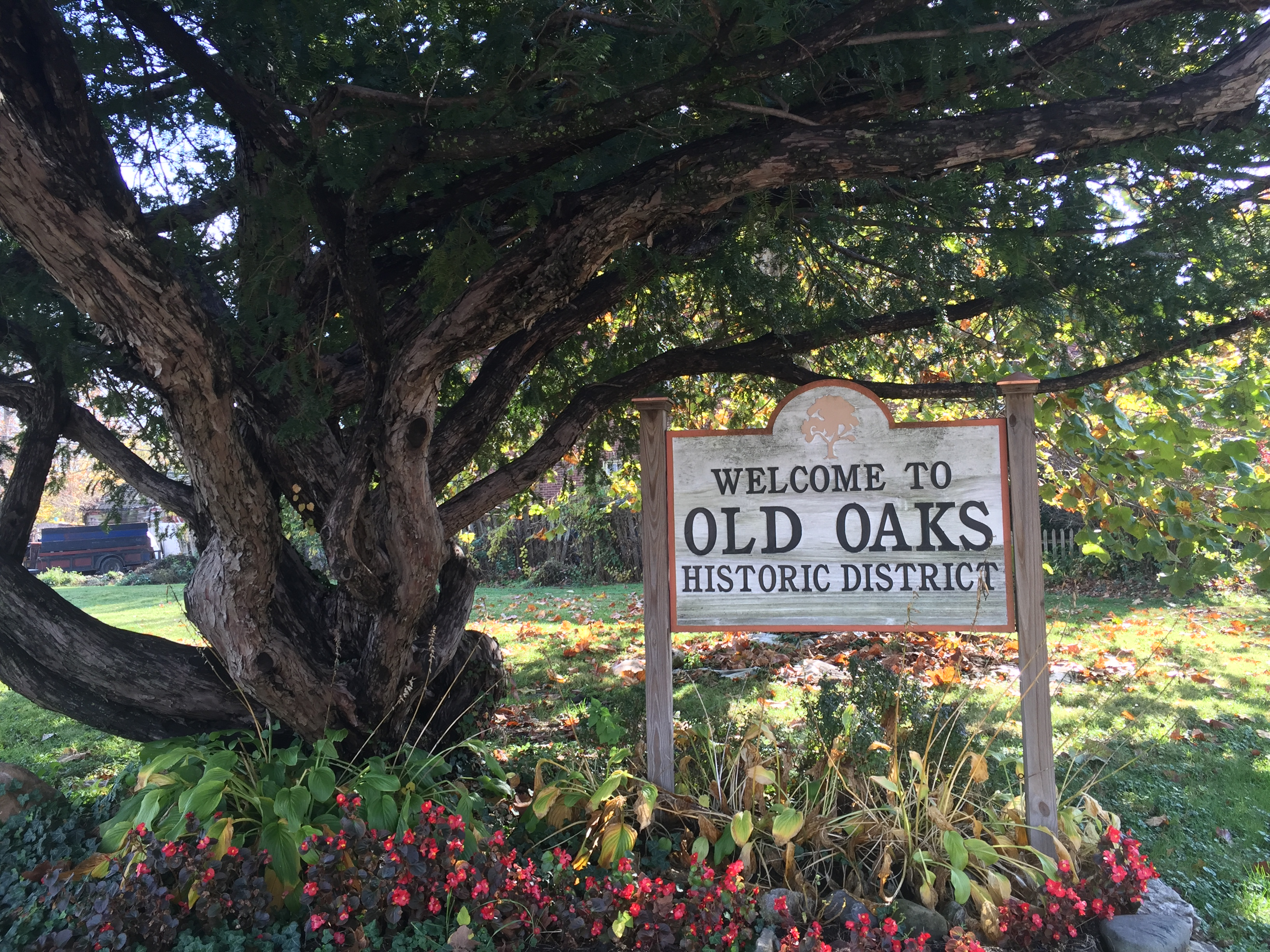 Sign stating "Welcome to Old Oaks Historic District," located on Mooberry Street in Columbus, Ohio.